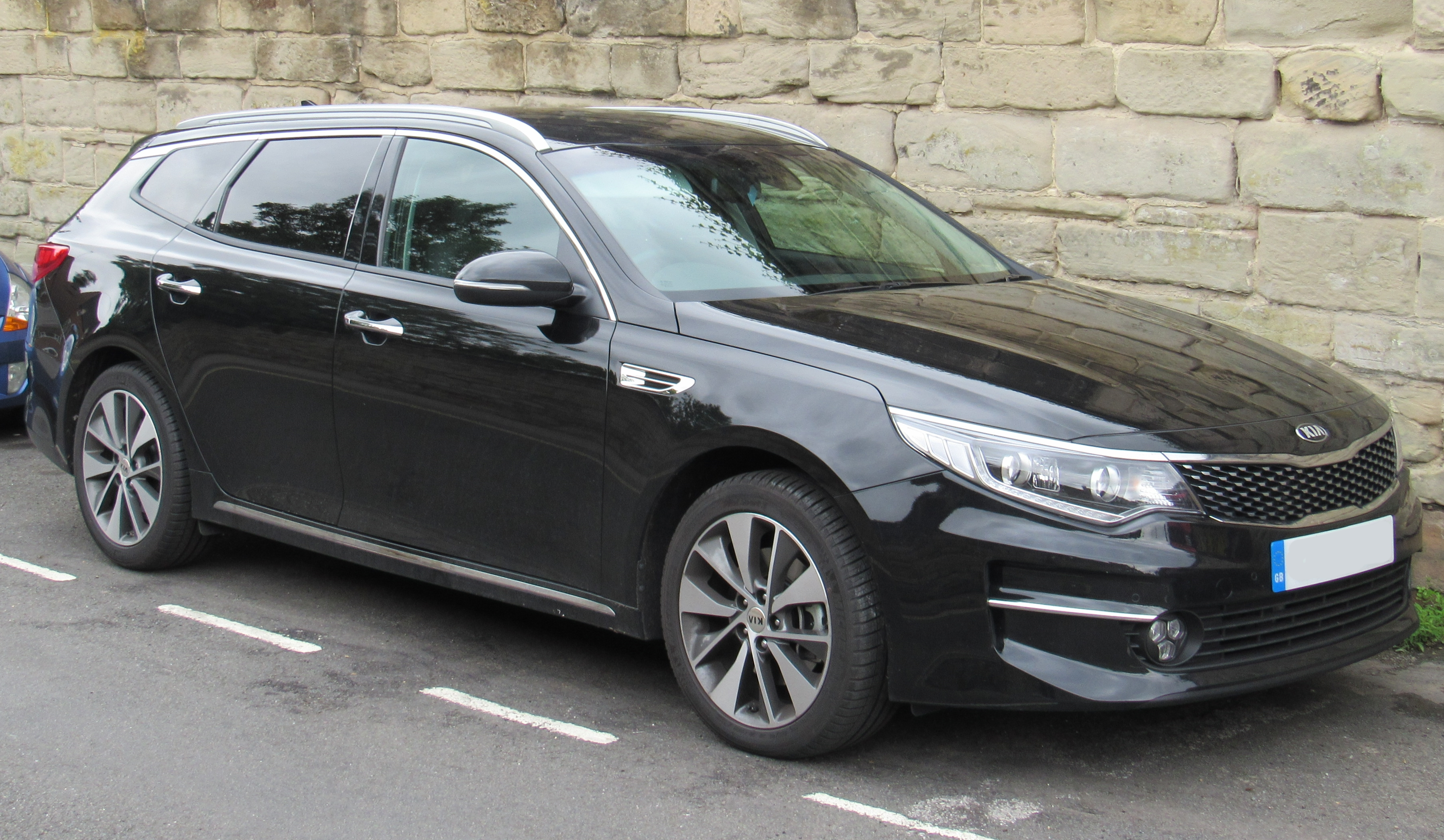 2017 Kia Optima 3 ISG CRDi S-A Sportswagon 1.7 Front Taken in Warwick